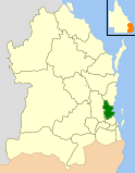 Location of the Local Government Area in Queensland